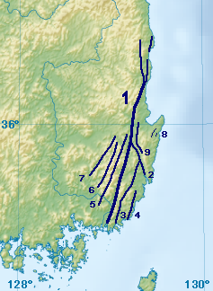 Map of Map of Yangsan fault system. Yangsan fault system Ulsan fault Dongrae fault Ilgwang fault Moryang fault Miryang fault Jain fault Ocheon fault system Yeonil tectonic line